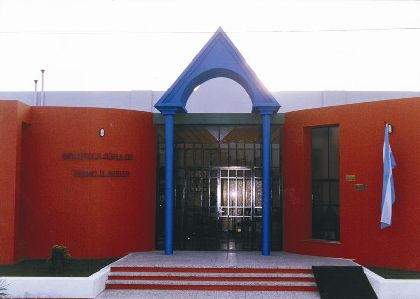 biblio